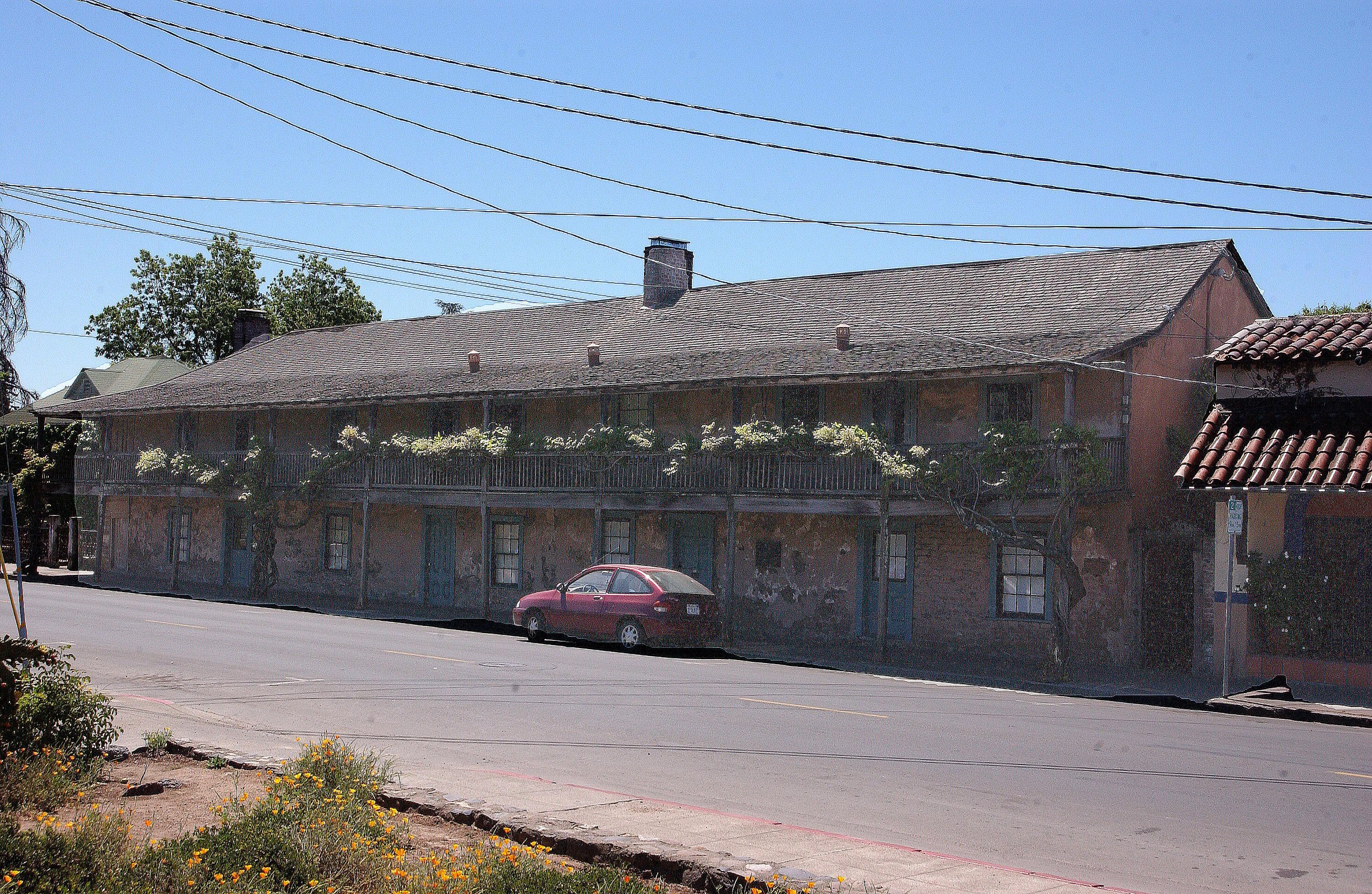 BLUE WING INN – THIS WAS ORIGINALLY PROBABLY A HOUSE USED FOR SOLDIERS ASSIGNED TO PROTECT THE MISSION . LATER ADDITIONS WERE ADDED AND IT BECAME A GAMBLING ROOM AND SALOON DURING GOLD RUSH DAYS.